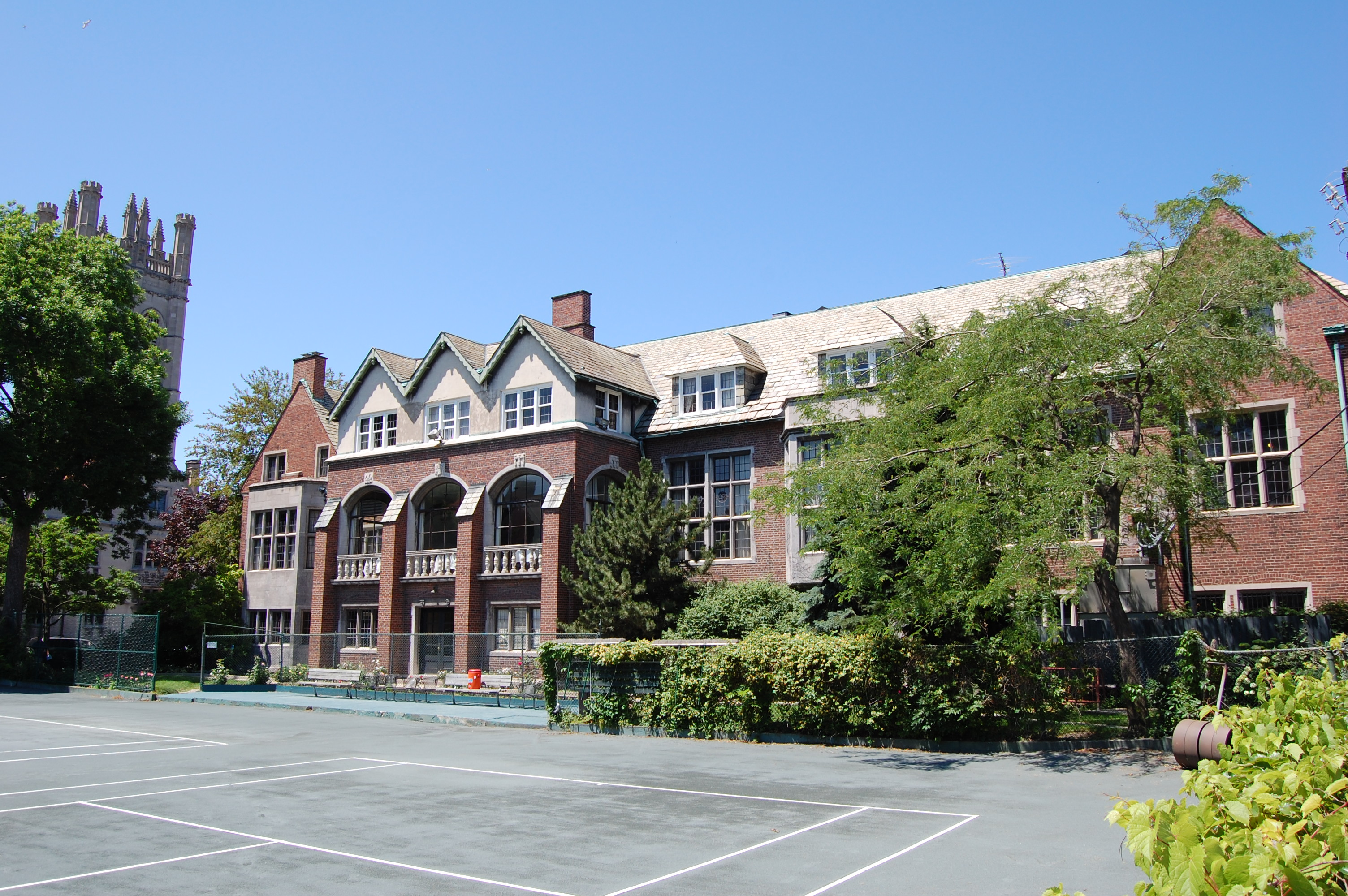 View of the rear entrance to the Quadrangle Club, on the campus of the University of Chicago, and showing a portion of the three clay tennis courts.